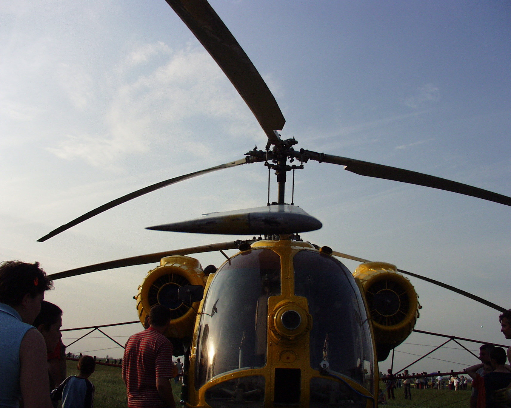 Cross-sectional view of rotor an helicopter (1.)